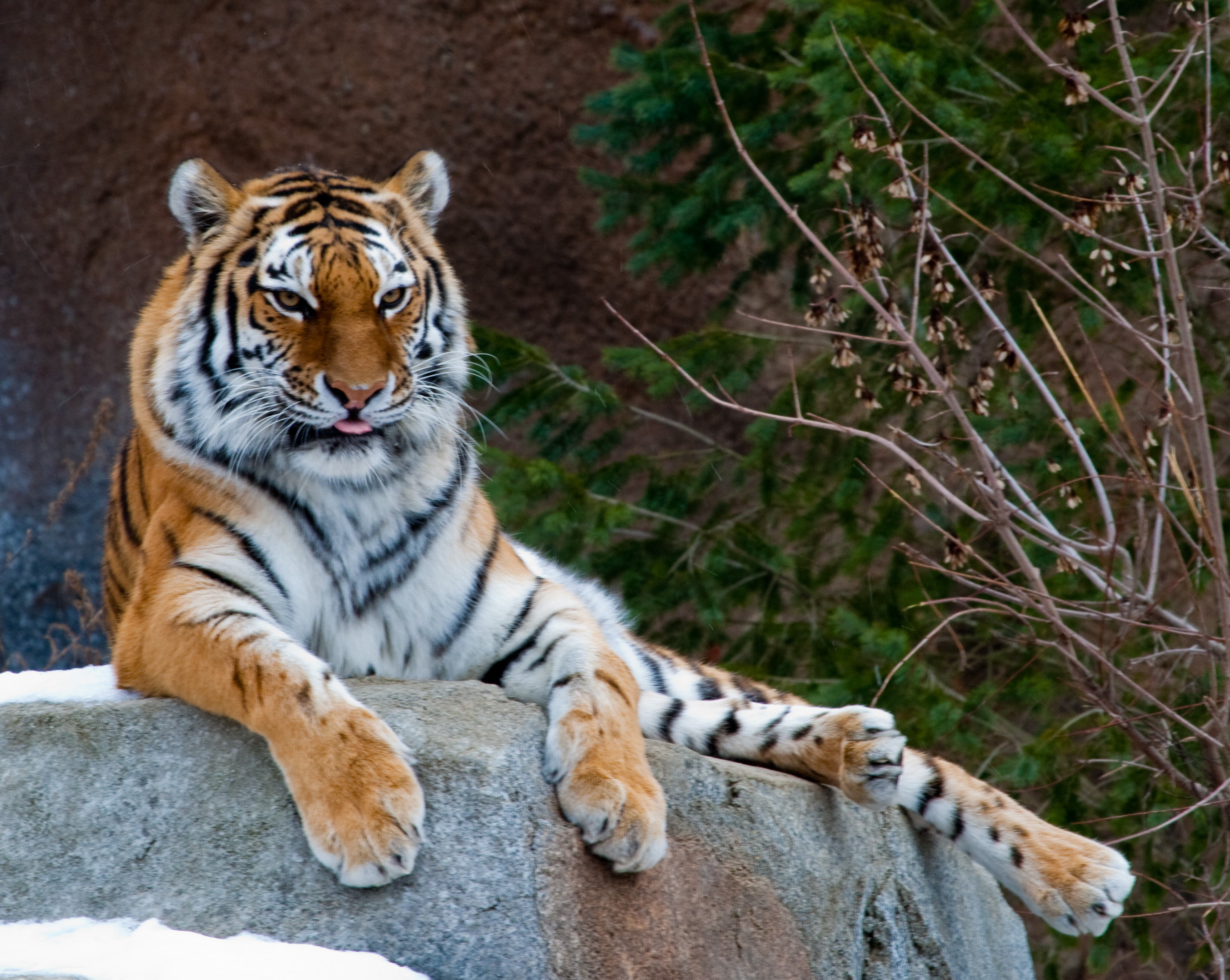 Met up with eraut for a new years day shoot at the Columbus Zoo